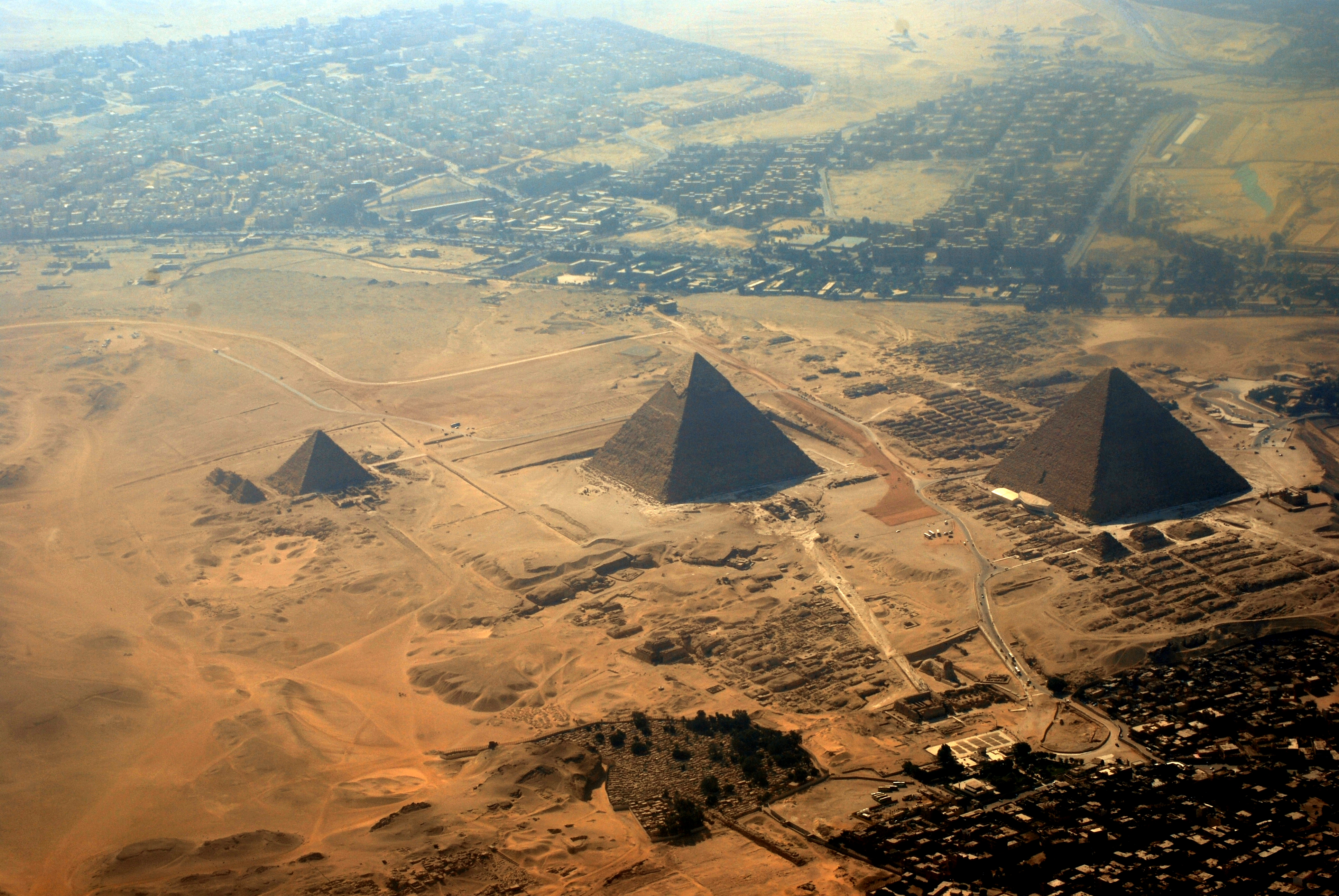 Gizah funerary complex seen from the air.